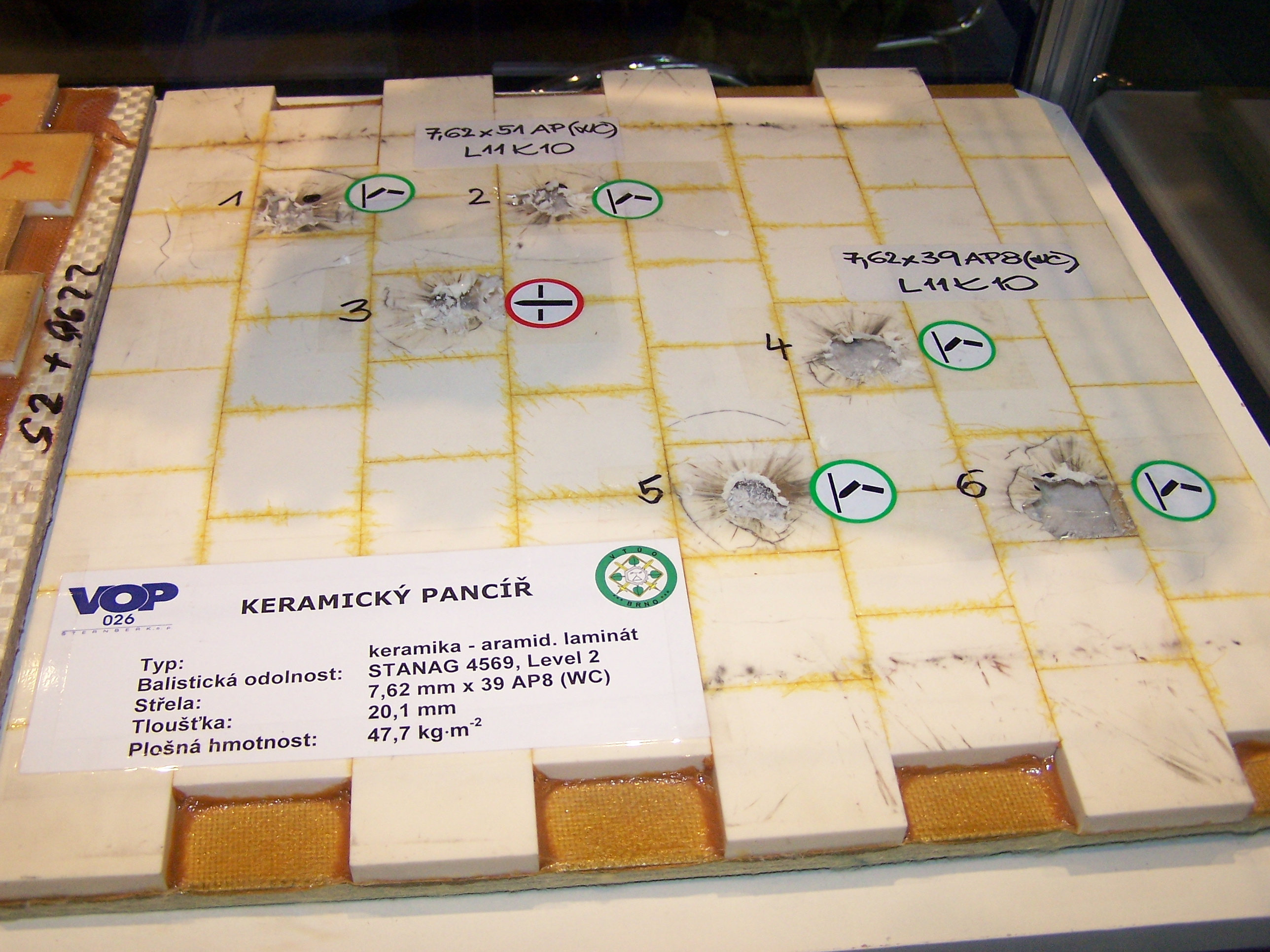 Ceramic-aramid composite laminate armour, ballistic test results